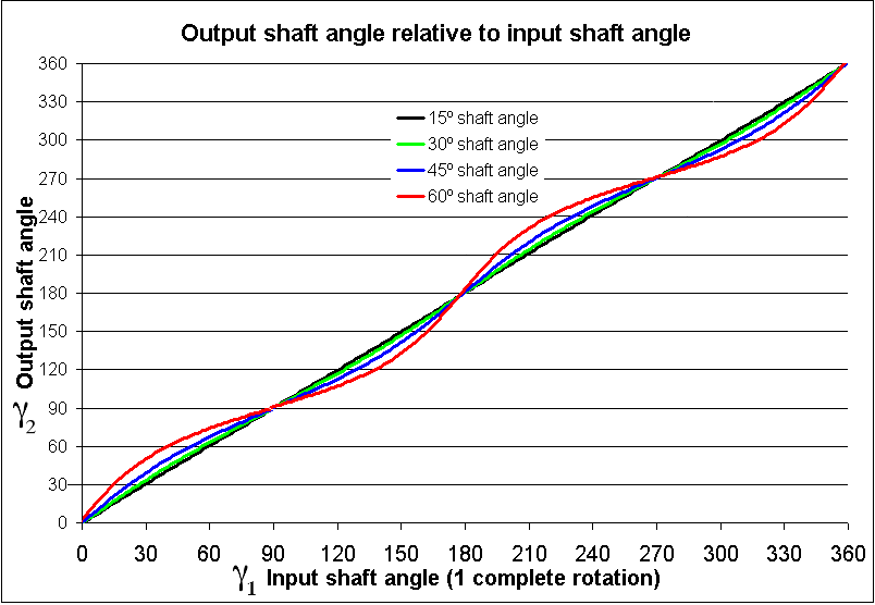 This is a replacement file for Image:Universal joint - output angle relative to input angle.png. It is the same image, but shifted 90 degrees in order to conform to the more detailed analysis presented.